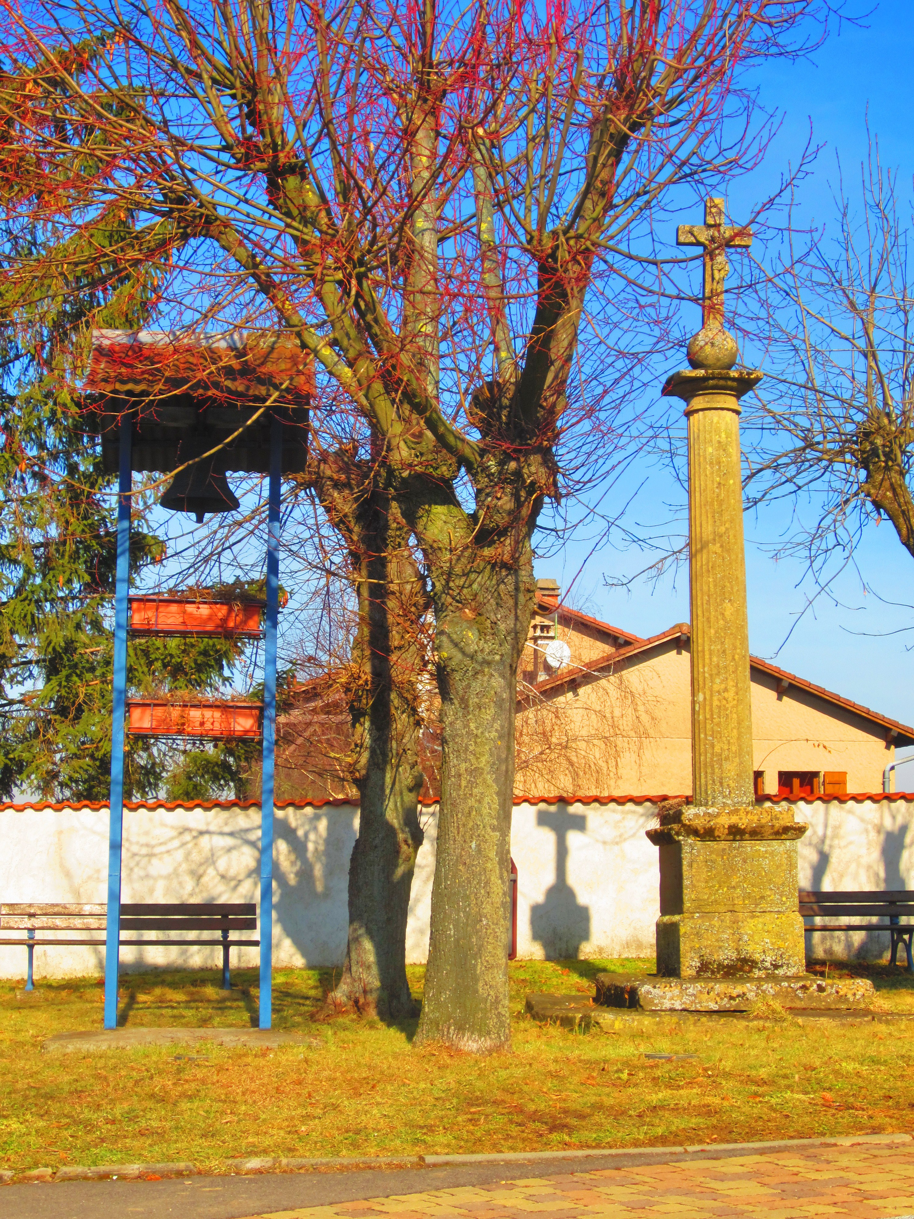 Mechy wayside cross